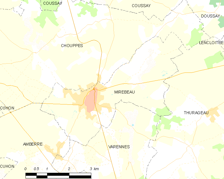 Map of French municipality Mirebeau